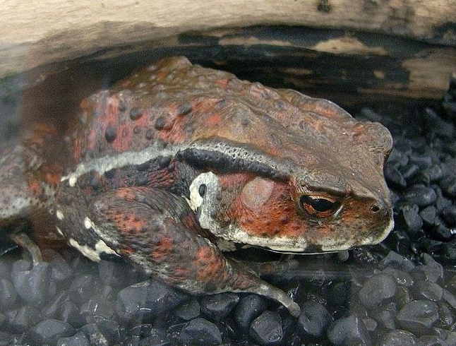 Bufo japonicus formosus